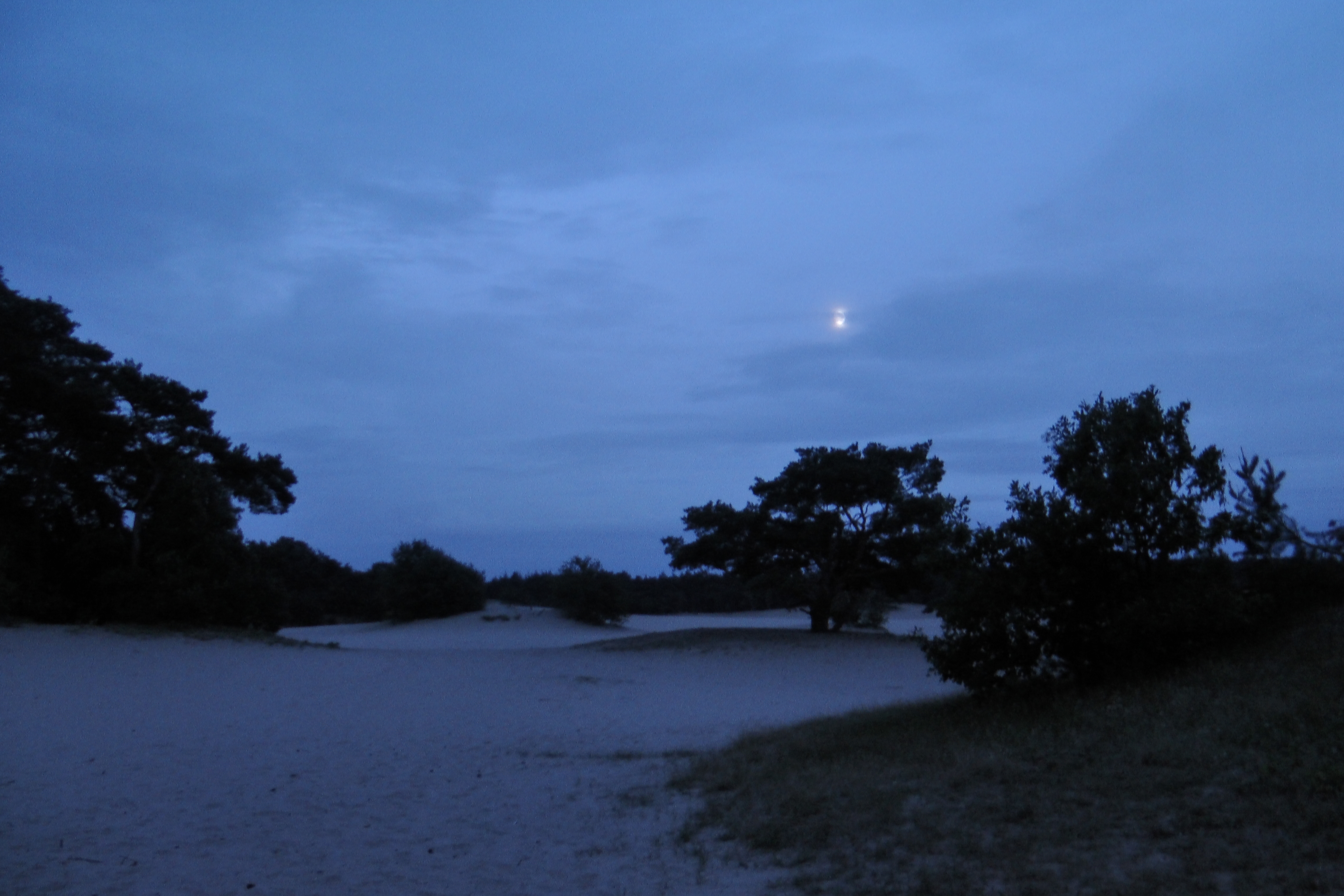 Soester Duinen near the dutch city Soest, 2011.